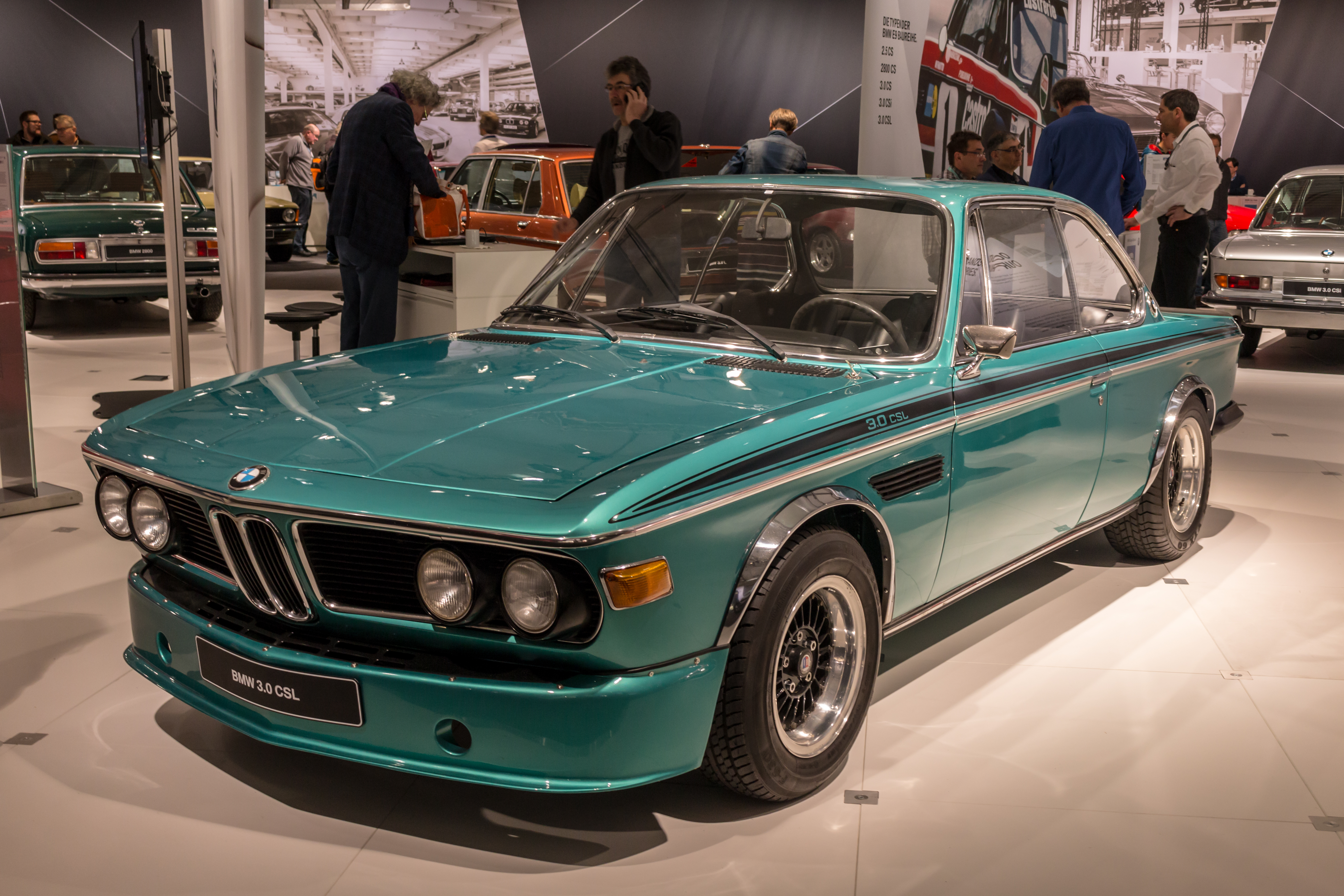 BMW, Techno-Classica 2018, Essen